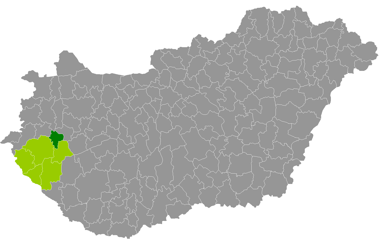 Location of Zalaszentgrót District, Zala, Hungary